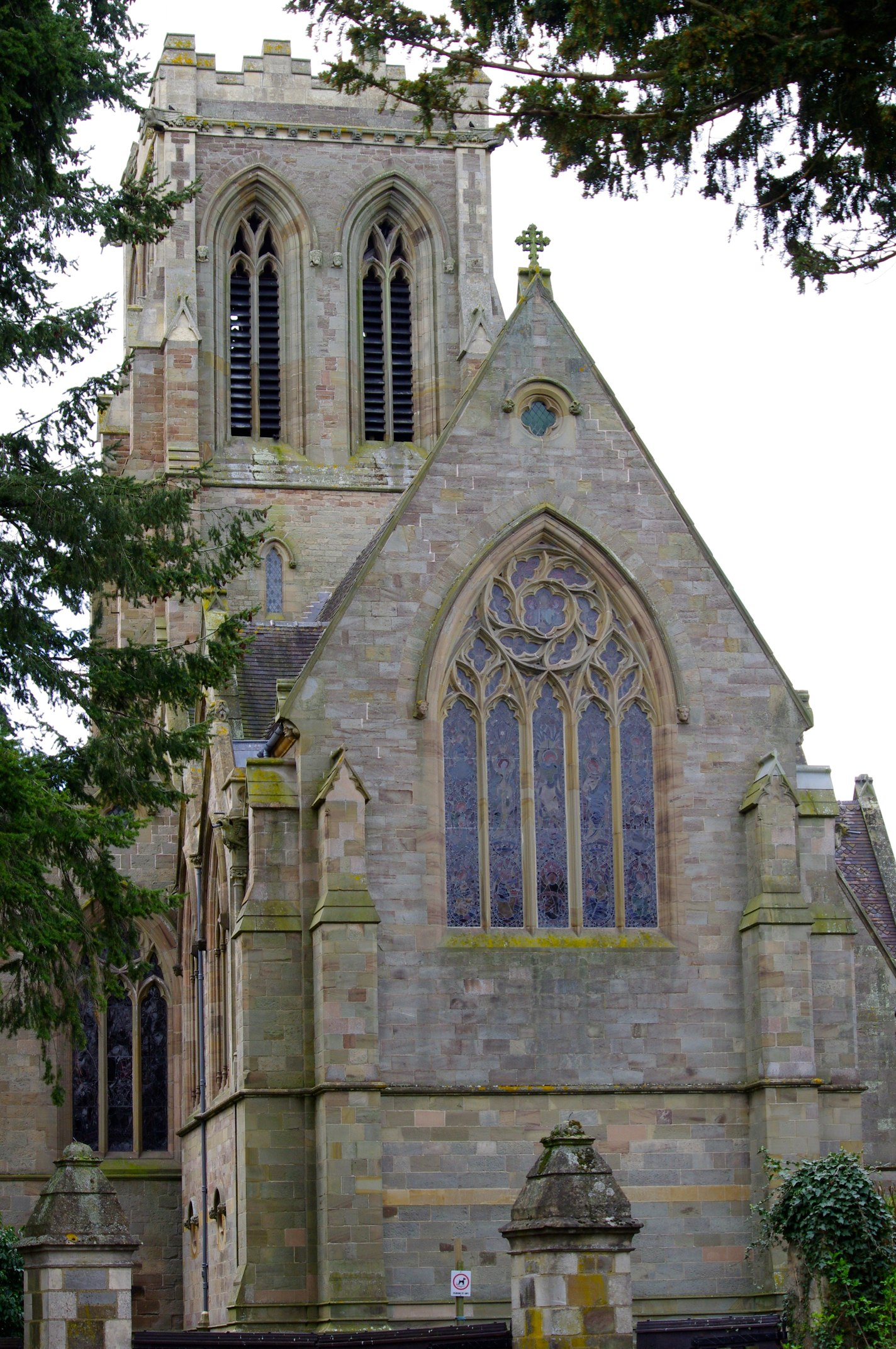 St Michael and All Angels Roman Catholic church, Belmont Abbey, Herefordshire. View from the east, showing the chancel and tower.